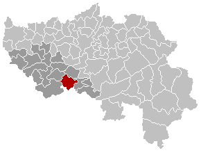 Map, municipality belgium Ouffet